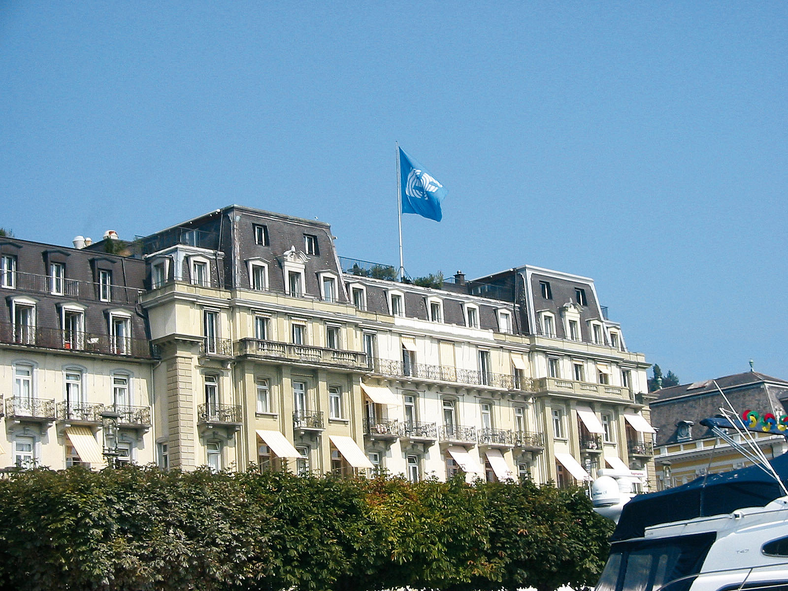 EF Education First headquarters in Lucerne, Switzerland